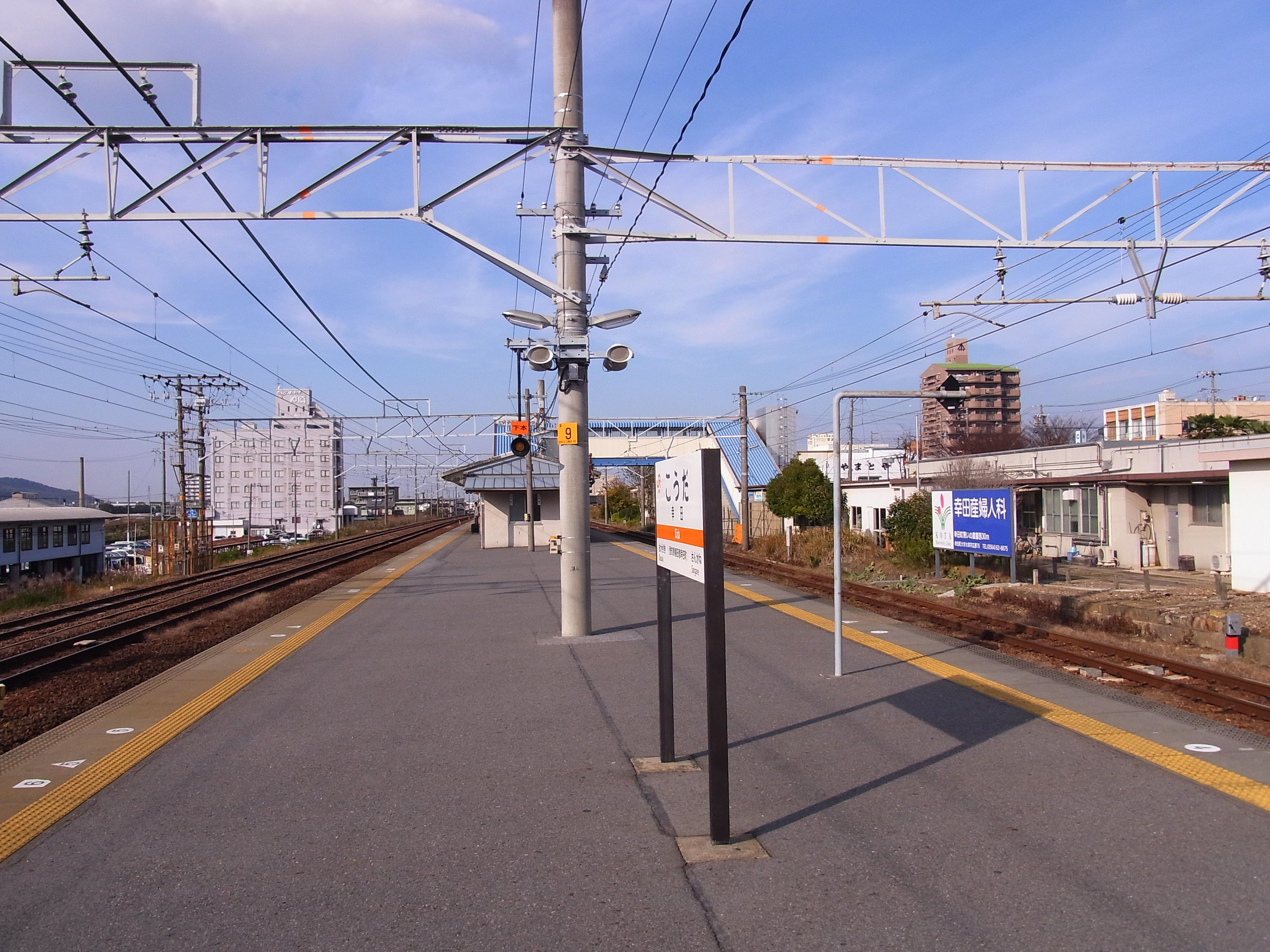 Platform of Koda Station in Kota town, Aichi prefecture